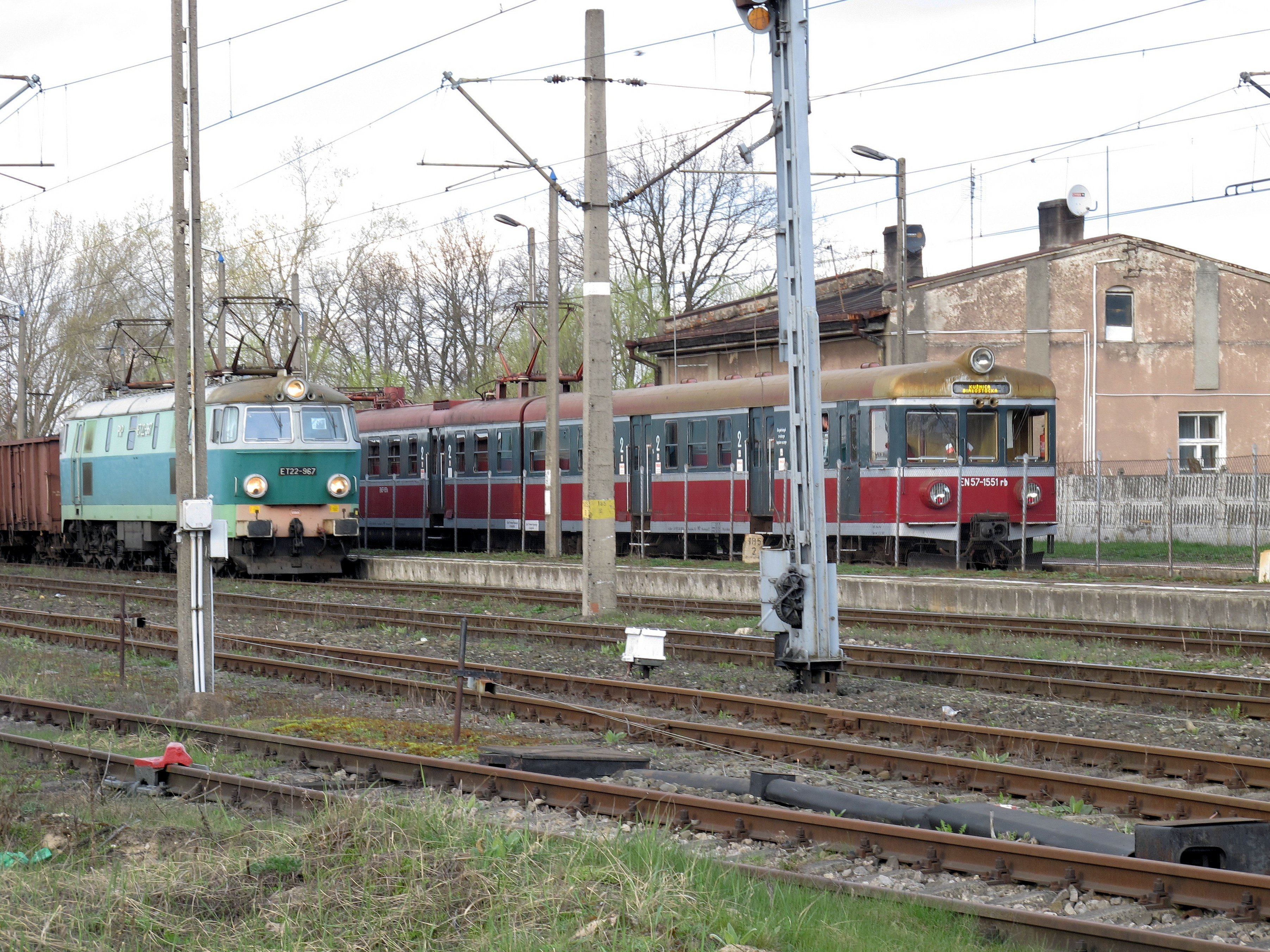 ET22 (ET22-967) and EN57 (EN57-1551) @ Wasilków train station.